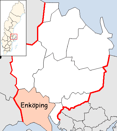 Enköping Municipality in Uppsala County Designd by me, based on Image:Uppsala County.png